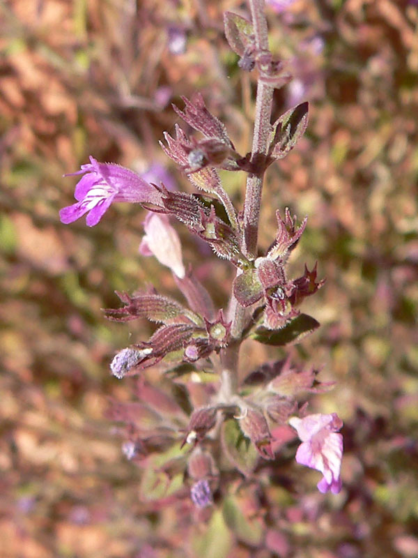 Hedeoma nana (probably subsp. californica) in Calico Basin, west of Las Vegas, Nevada